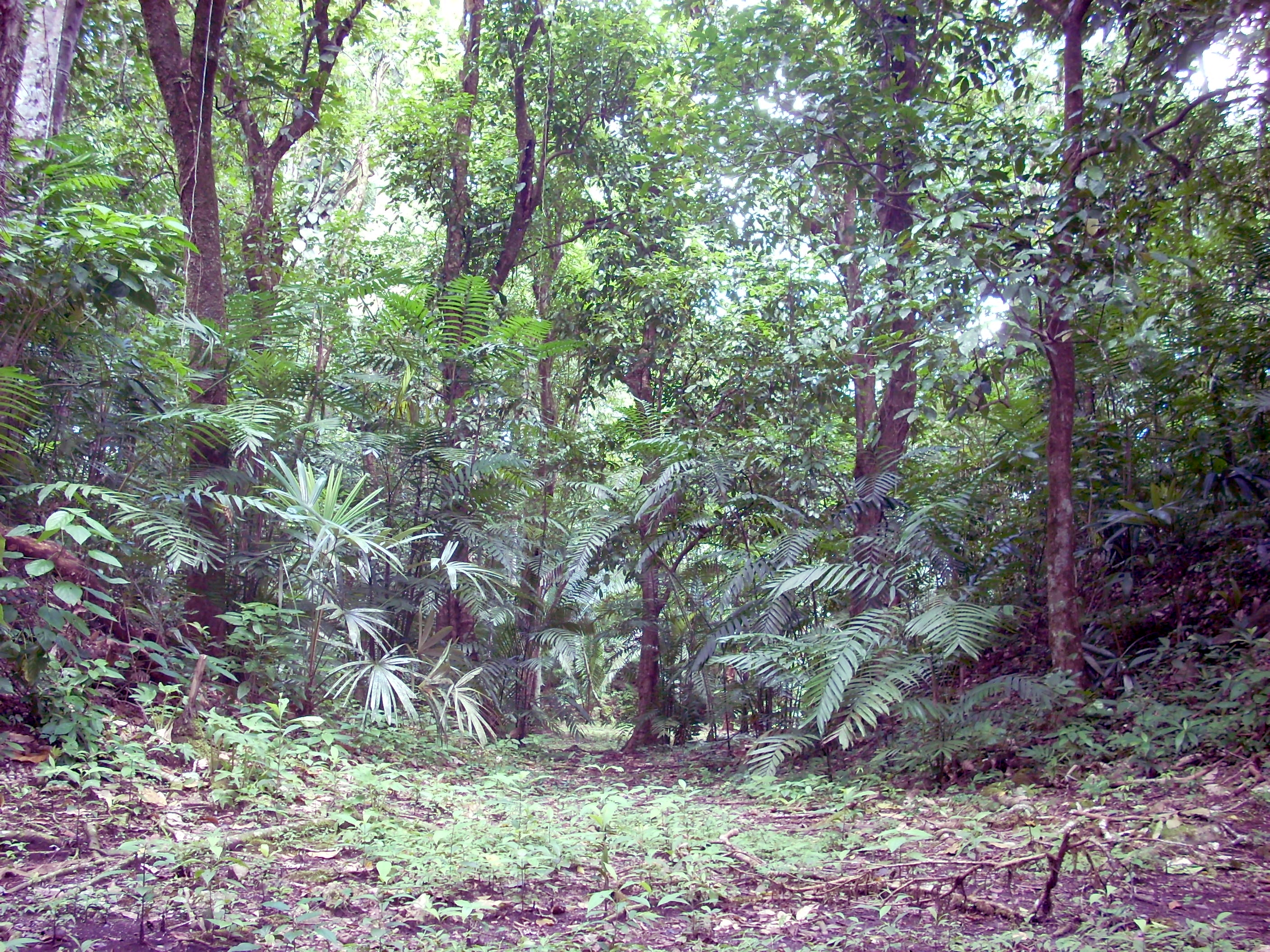 Unrestored Mesoamerican ballcourt at Ixkun, Peten, Guatemala.